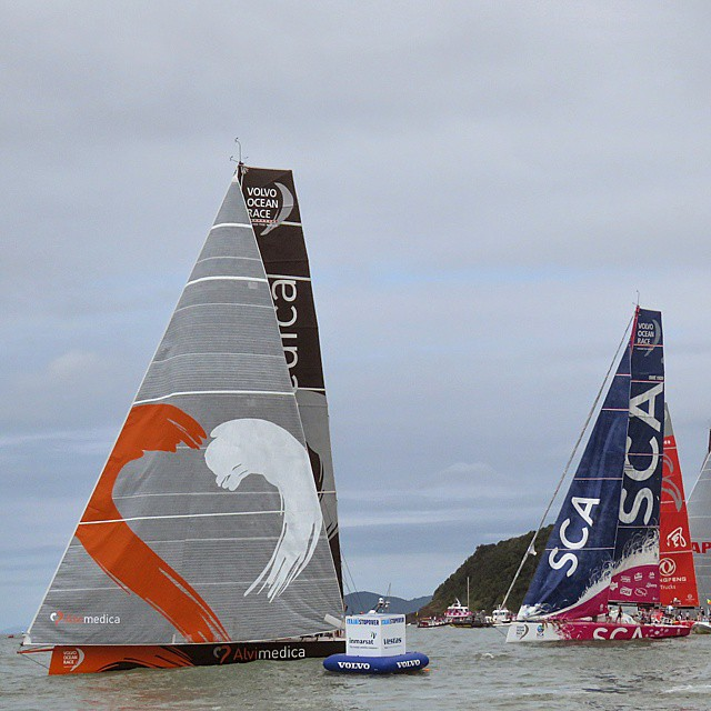 volvooceanrace #sailing Leg 6 start: Alvimedica and the Code Zero versus SCA and the J1